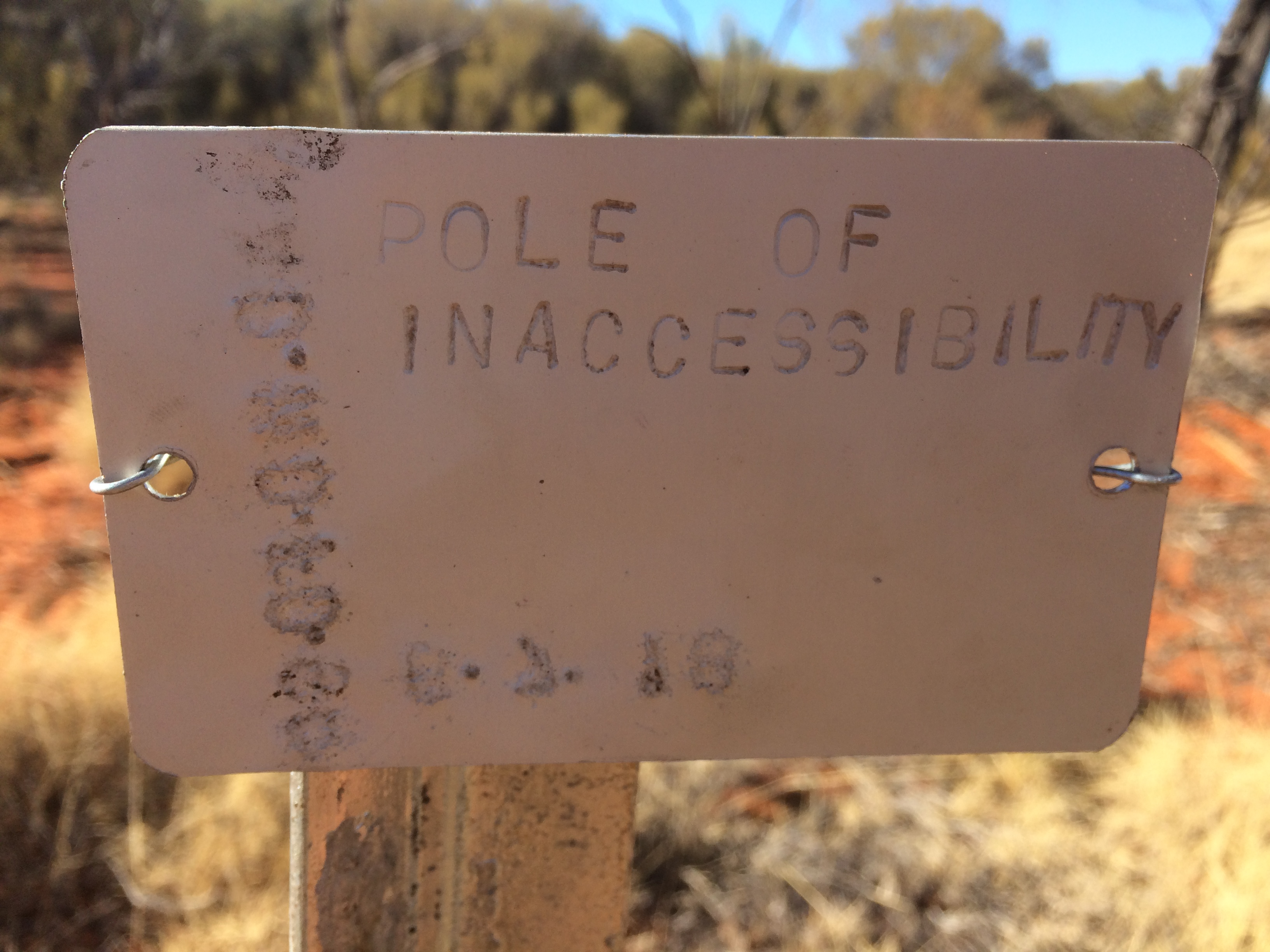 Stake and plaque marking the Australian Pole Of Inaccessibility. Located 160km WNW of Alice Springs on the remote Derwent Station. It is the furthest point from the ocean in Australia. The landmark was staked by Samuel Roberts, Anna Dakin, Francesca Dakin and William Dakin on 05/07/2018.